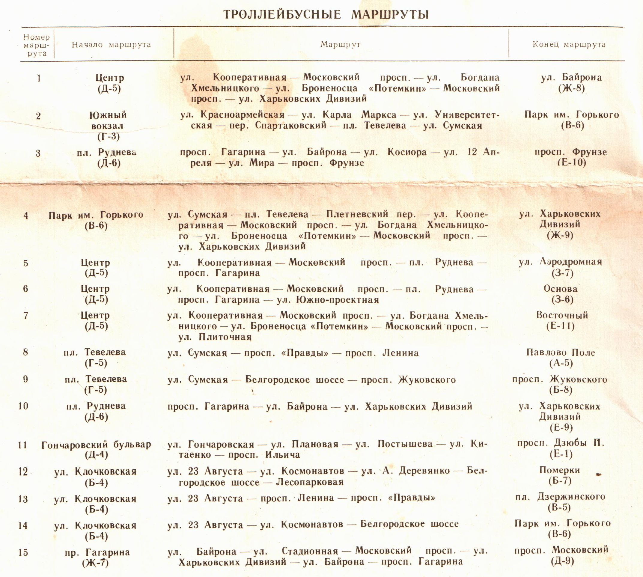 Kharkov Trolleybus Numbers 1971